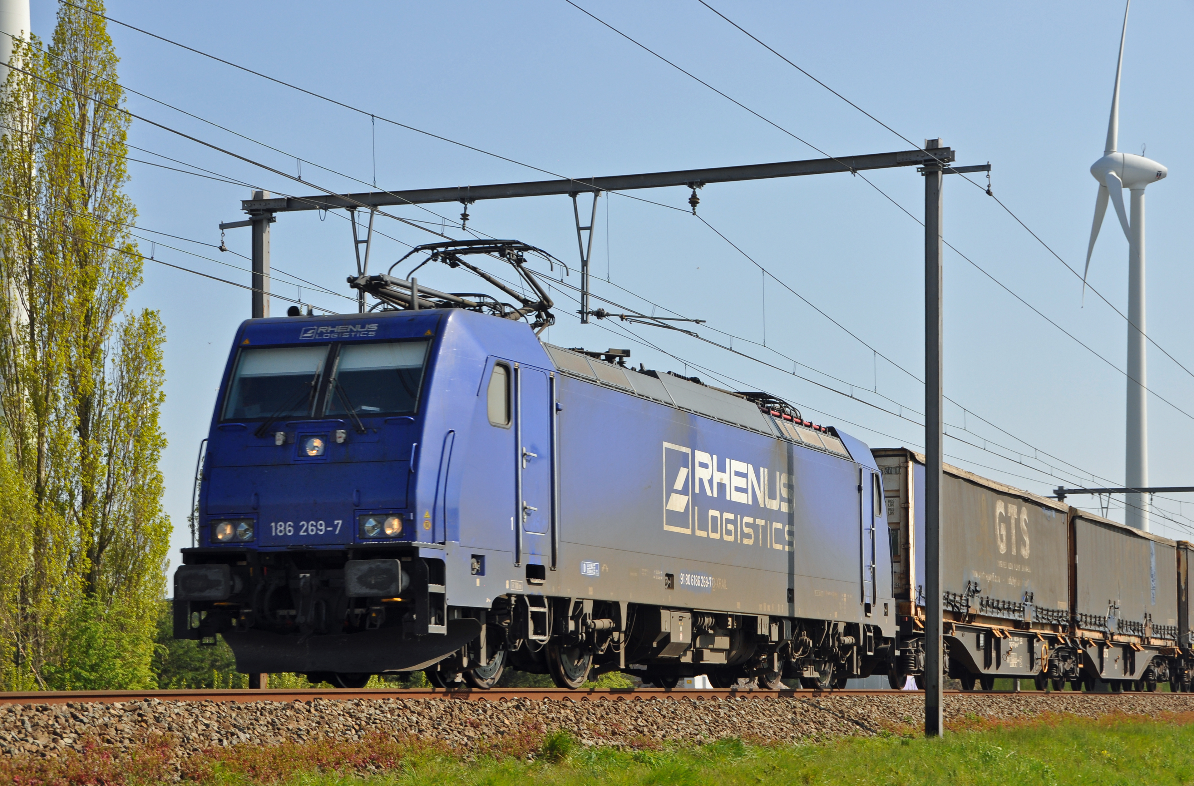 Traxx loco 186 269-7 of Rhenus Logistics with a freight train on Belgian line 51A heading for Zeebrugge